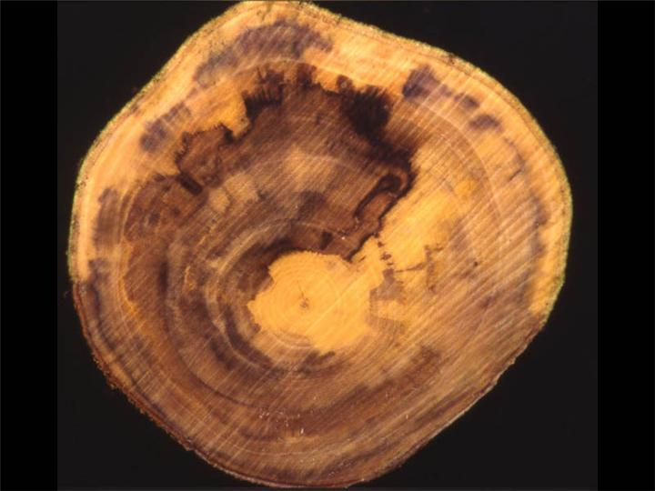 This picture shows a cross section of an infected tree infected with mal secco.